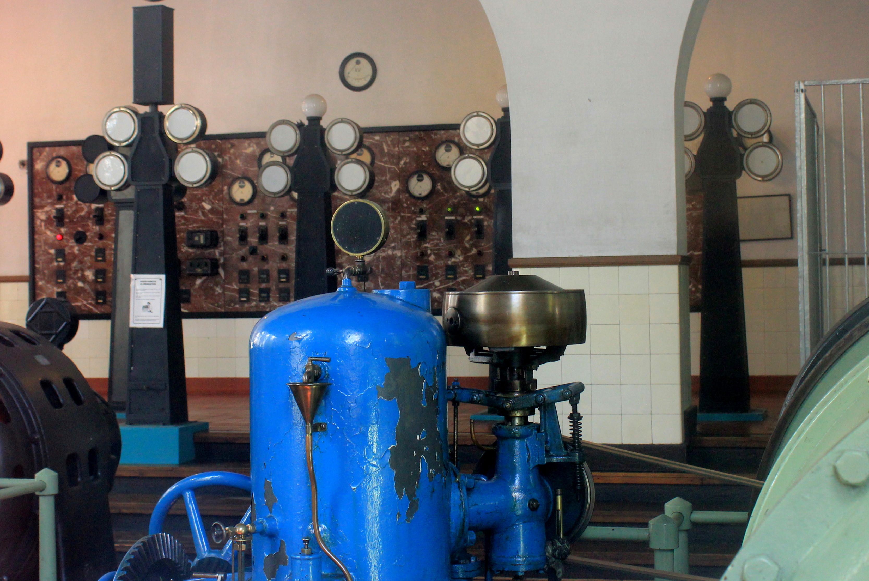 Harteværket is a hydroelectric plant in Harte,Kolding, which was built in the years 1918-1920 and is Denmark's first major hydroelectric plant. Harteværket started towards the end of the first World War, in order to meet the growing need for electricity. The architect was Ernst Petersen and construction workers employed around 350 workers. The water for the plant comes from Donssøerne, which was formed by the damming up Vester Nebel stream and Alminde stream. The water is running from Donssøerne down to the plant's turbines through channels and a 80 meter long tube with a decrease of 25.4 meters. Flowing 6,000 liters of water through the pipes every second. After the natural recreation of Vester Nebel stream in 2008, the water supply to Harteværket was reduced by 60%, but still produced electricity. Harteværket, which today serves as a working museum. The original turbines from 1920 produces 1.8 kWh. hour, depending on the amount of water. In 1992, it supplied about 1% of the electricity consumption in Kolding. Most of the equipment inside, is from the time it was buildt.